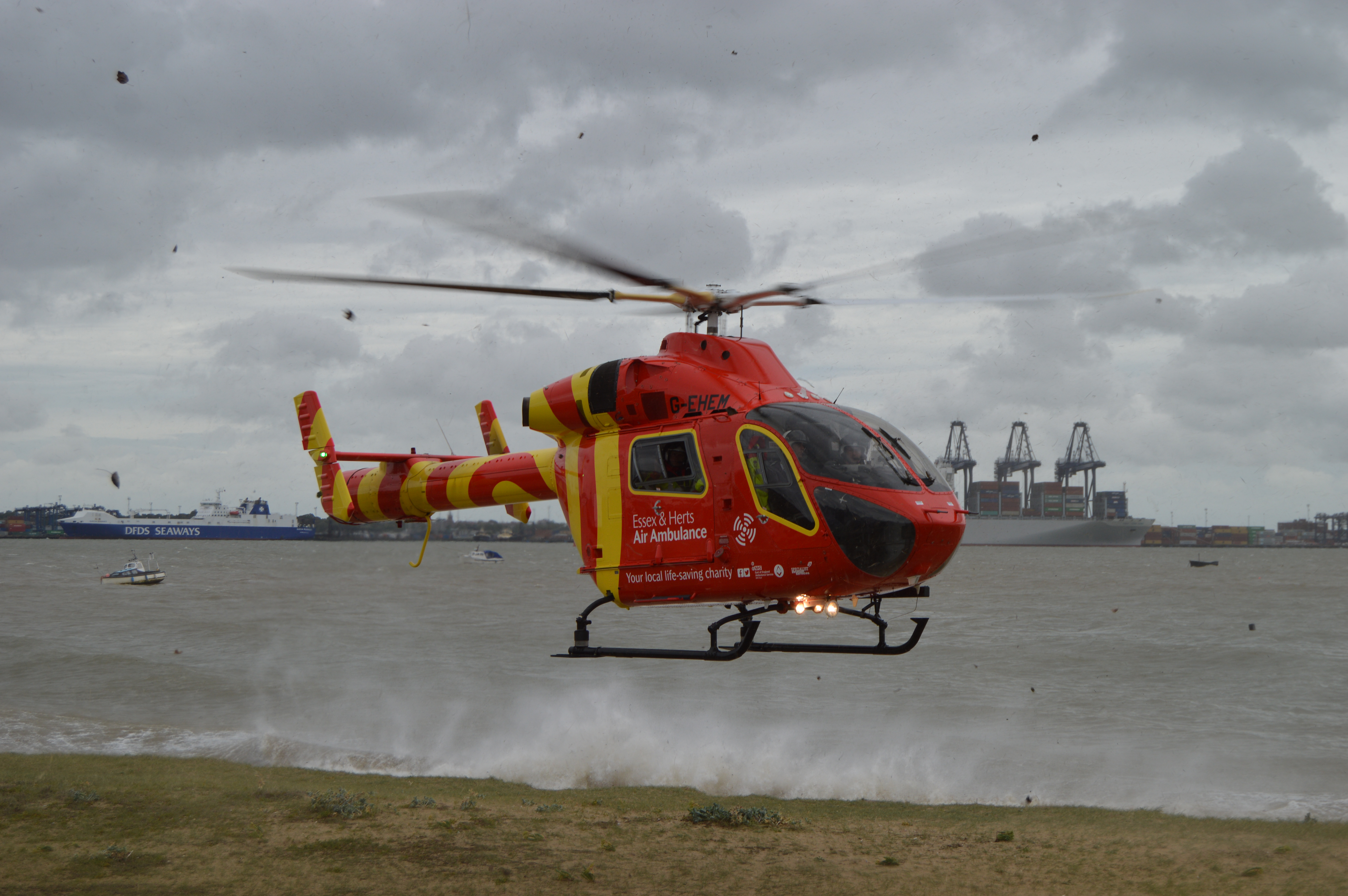 The MD902 Explorer landing in Harwich, Essex at the Charity's Motorcycle Run event.